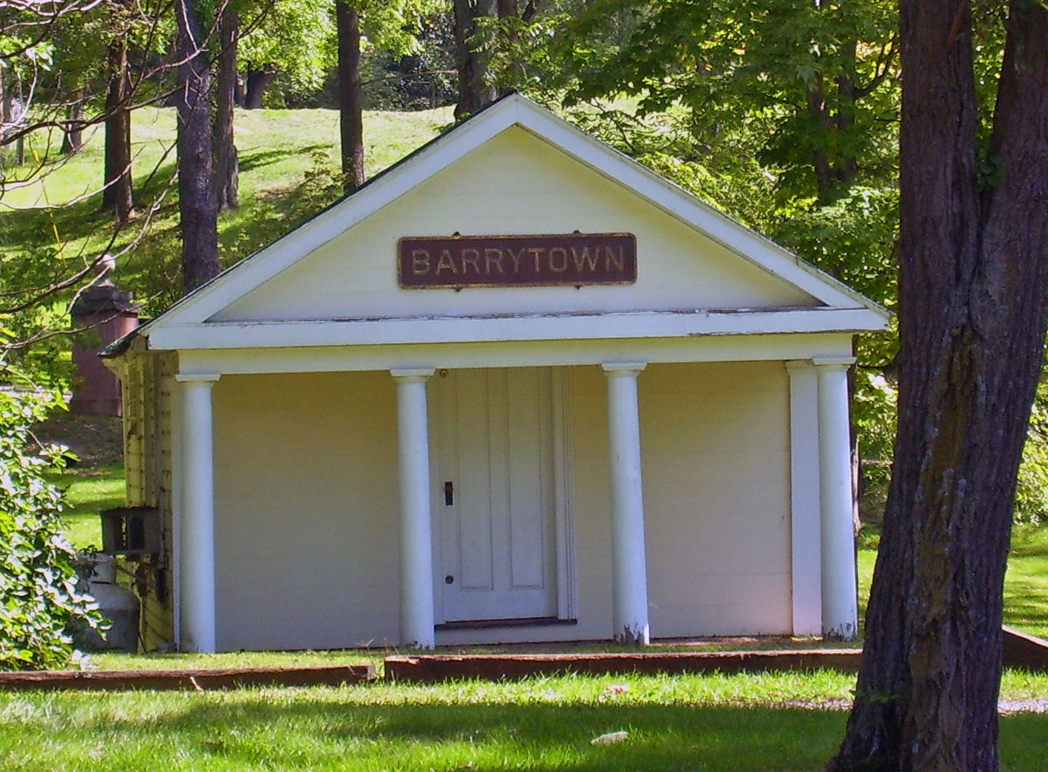 Building originally Navin's General Store, adjacent to now-demolished [New York Central Railroad] station at Barrytown, NY, USA. No longer in use